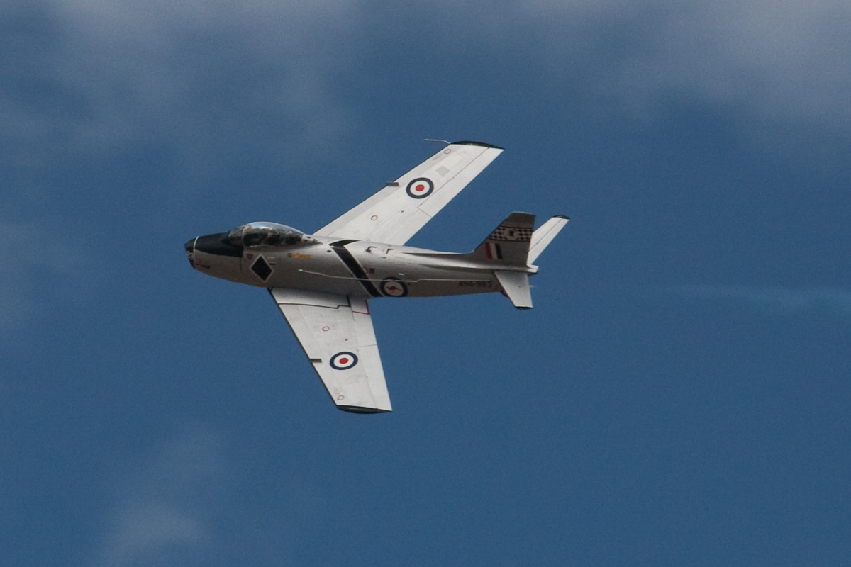 CAC CA-27 Sabre in flight at Point Cook Air Pageant 2010